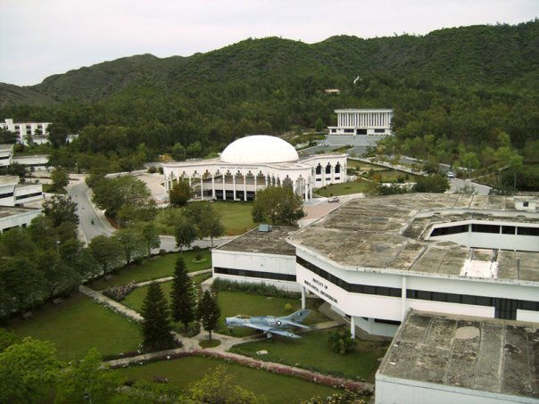 View from GIK Institute Clock Tower. Shot taken in April 2009 when we got special permission to get inside for our FYP